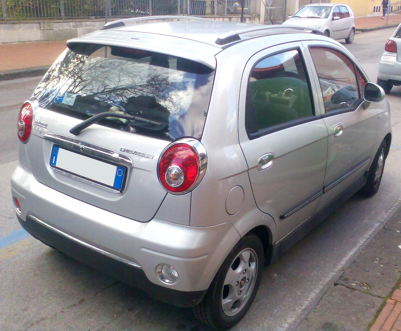 Chevrolet Matiz